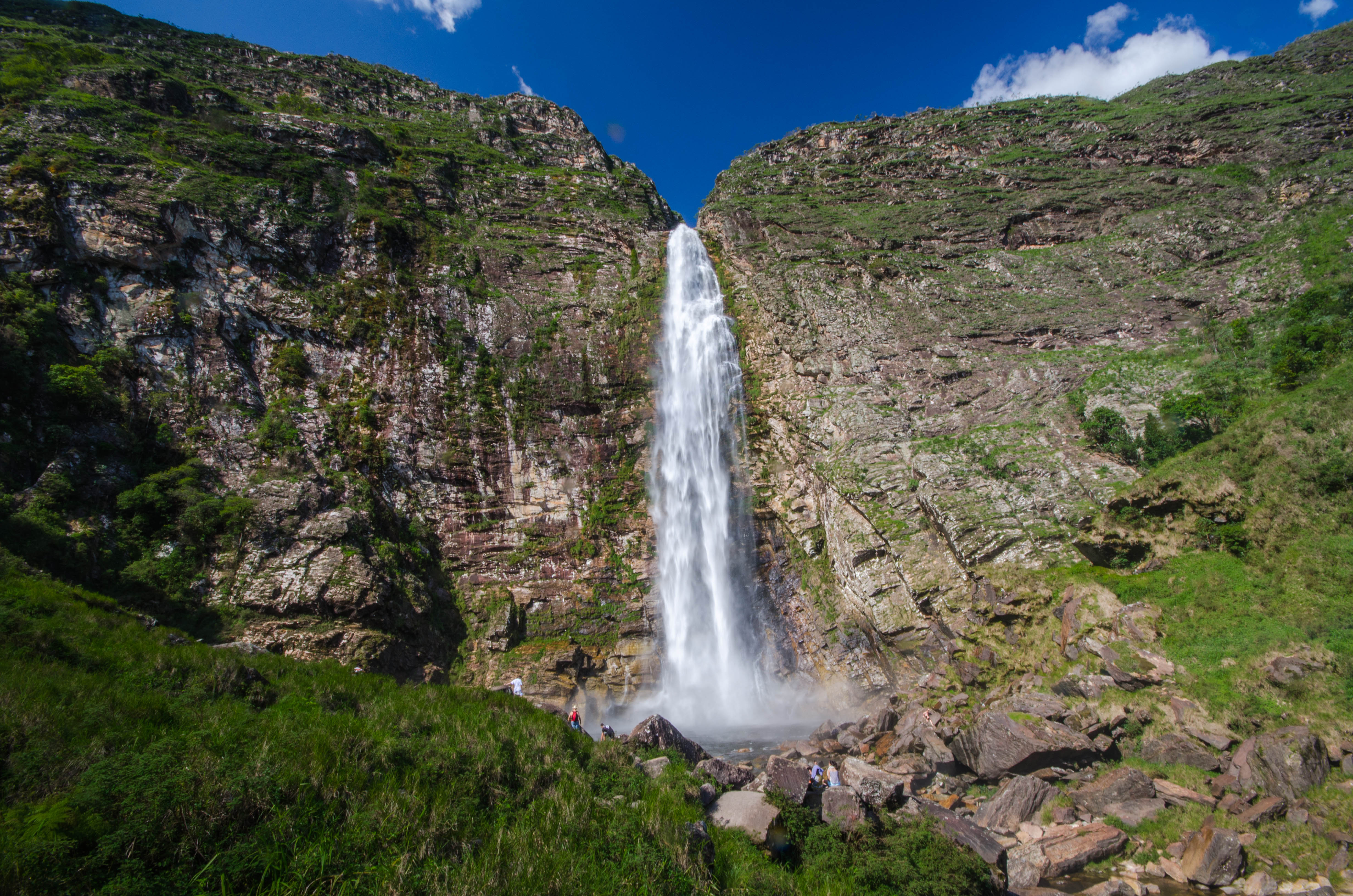 Casca D'anta's waterfall